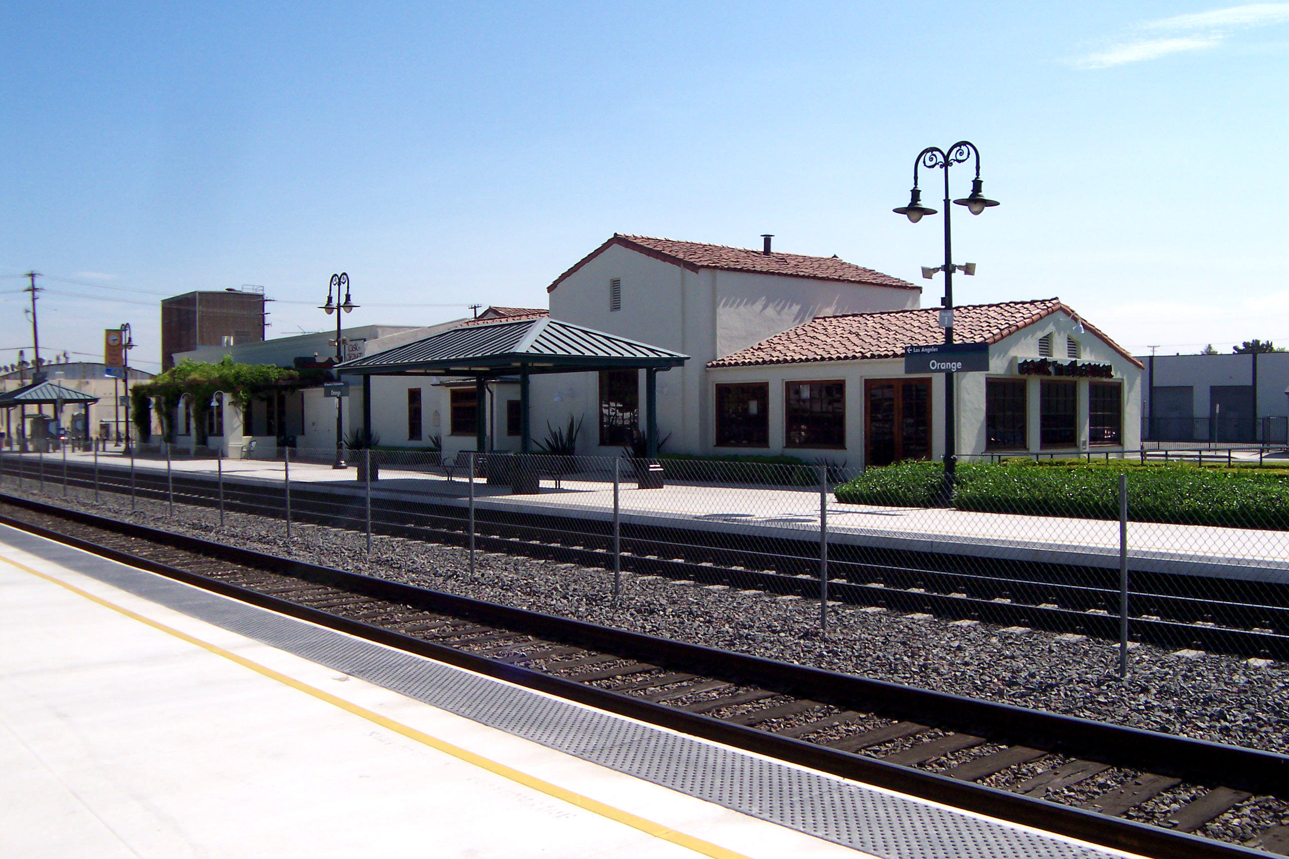 The former Atchison station, now a Metrolink platform in Orange in July 2004.